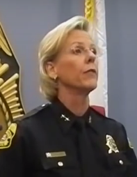 Jane Castor (2012)